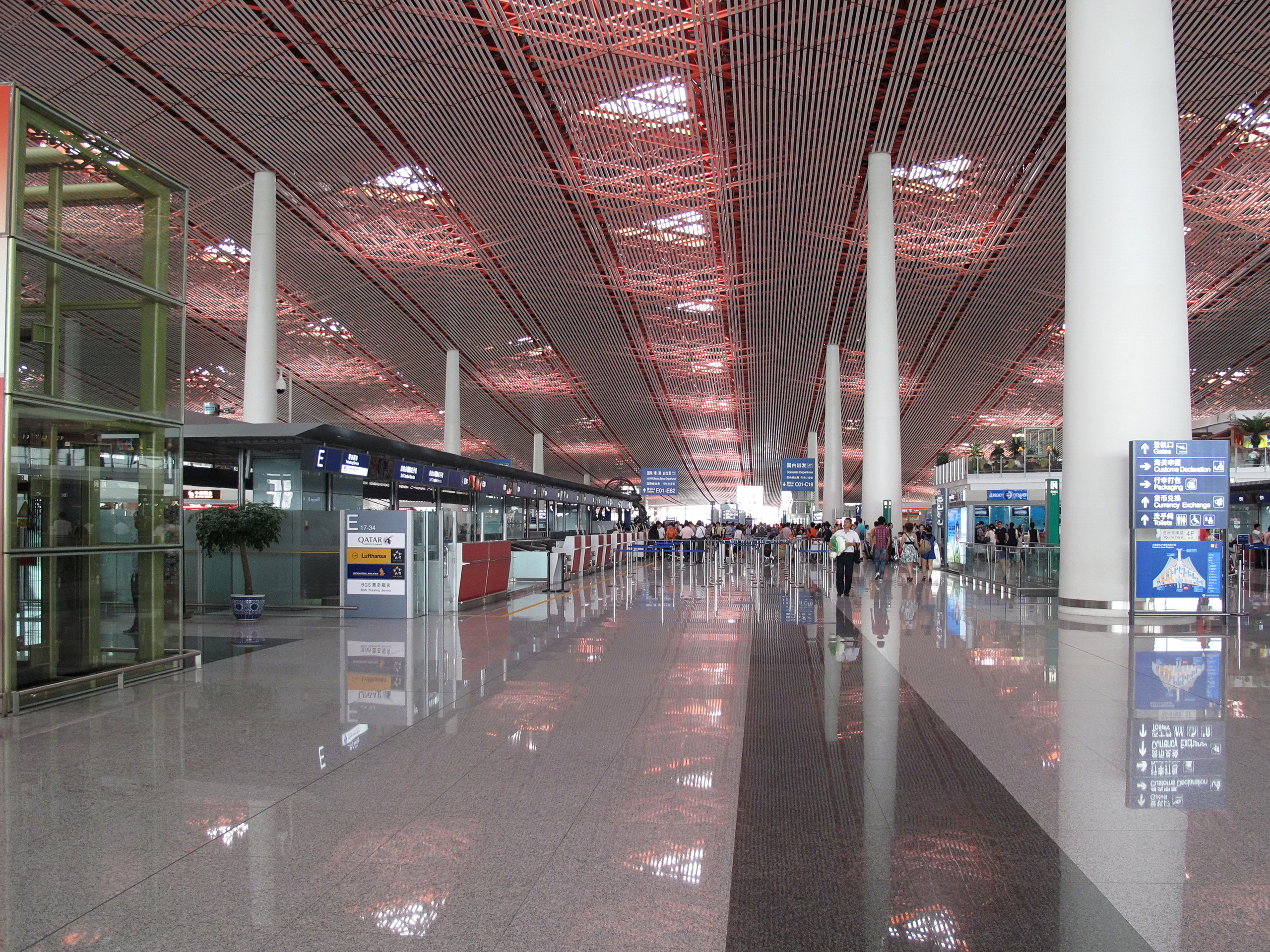 International check-in in Beijing Capital International Airport Terminal 3